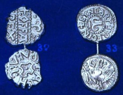 This image is taken from Henry Noel Humphries, The Gold, Silver and Copper Coins of England: Exhibited in a series of fac-similes of the most interesting coins of each successive period; printed in gold, silver and copper, accompanied by a sketch of the progress of the English coinage from the earliest period to the present time, sixth edition, 1849, H.G. Bohn, London. Via Google Books.